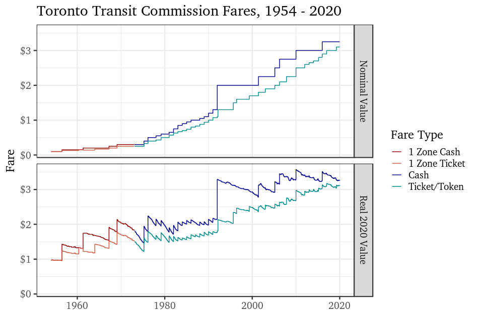 Source data is available at